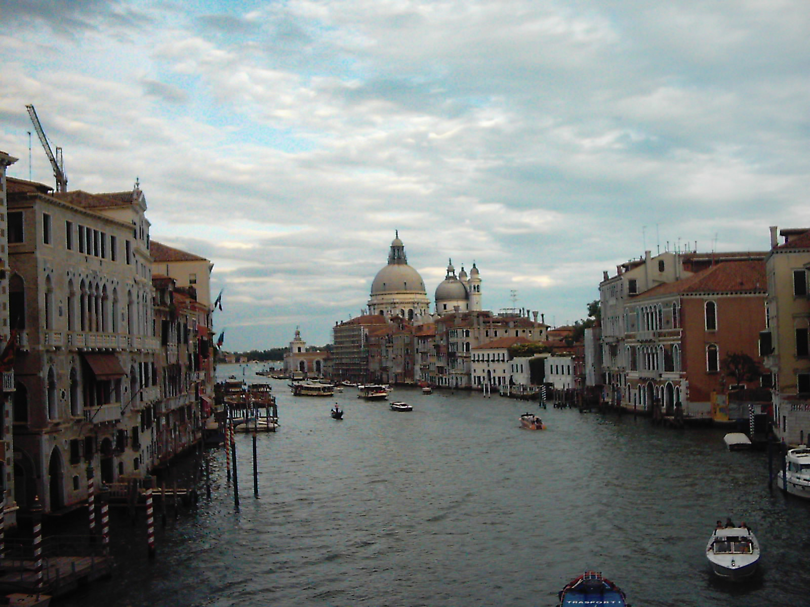 Canal Grande/Large Channel, Venice